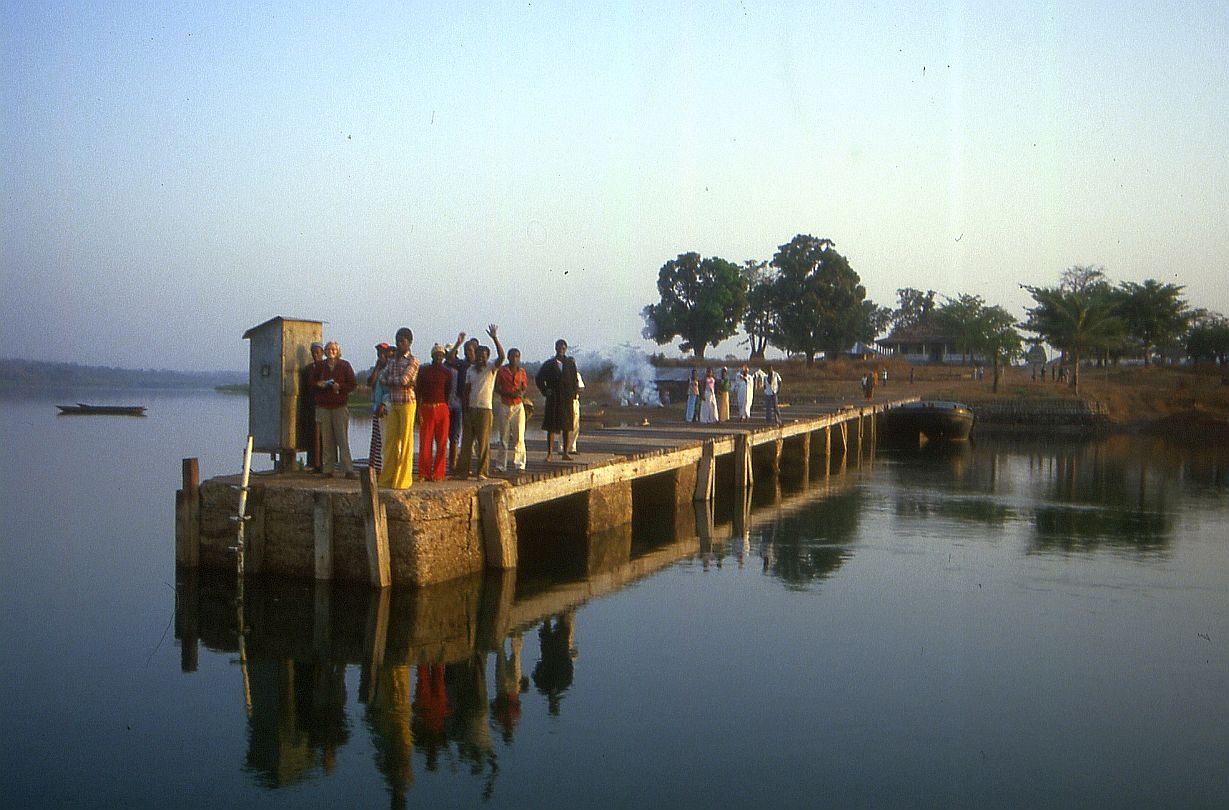 Buba harbour around 1980